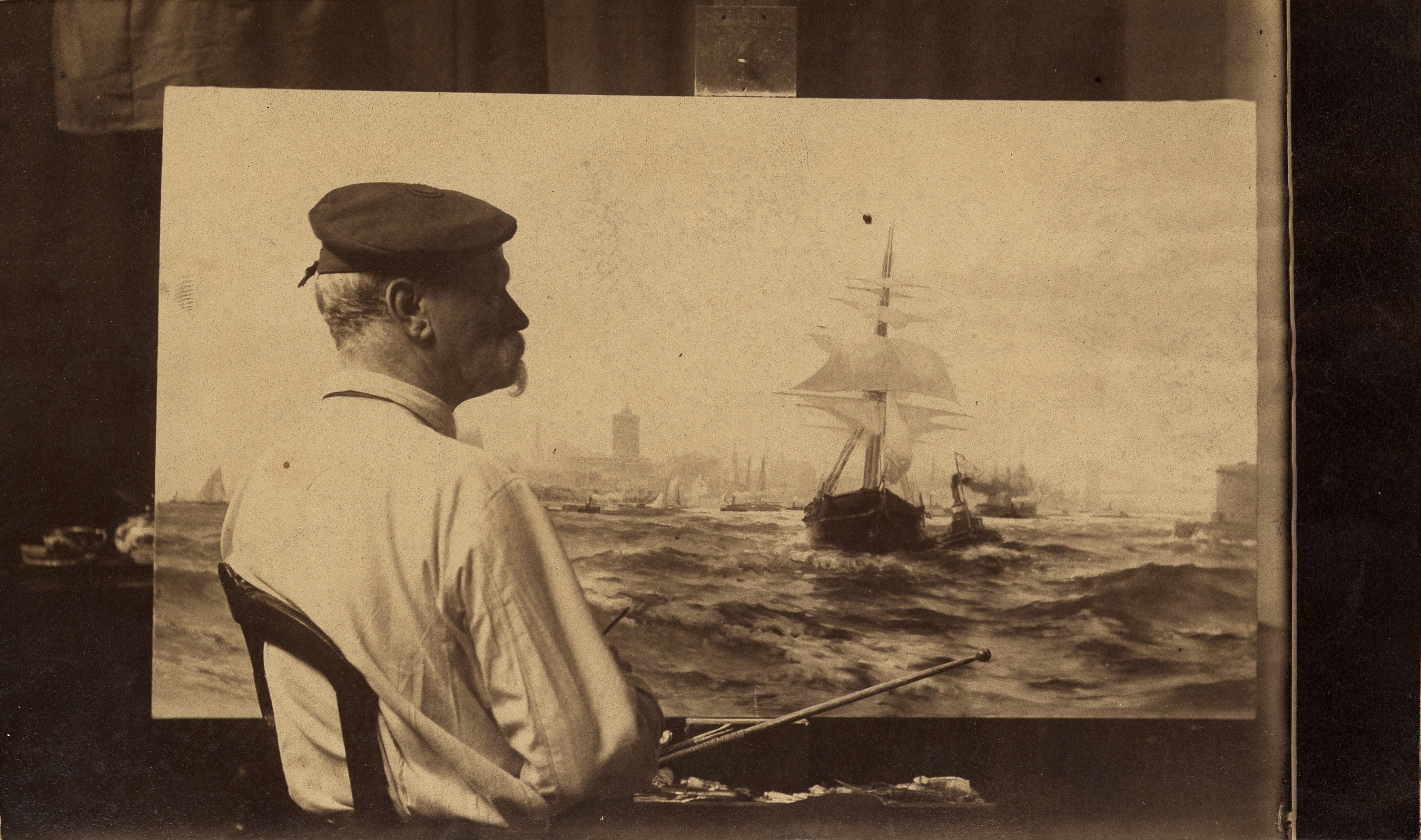 Moran seated in a side pose in front of a work in progress. Photographer unidentifed. Moran was a marine painter, New York, N.Y.